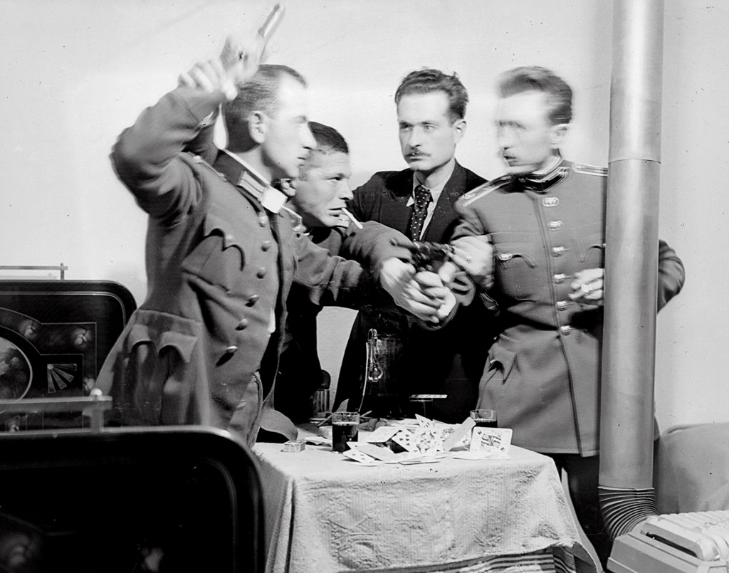 Bulgarian army officers fighting over a game of cards with their sidearms drawn, 1930s